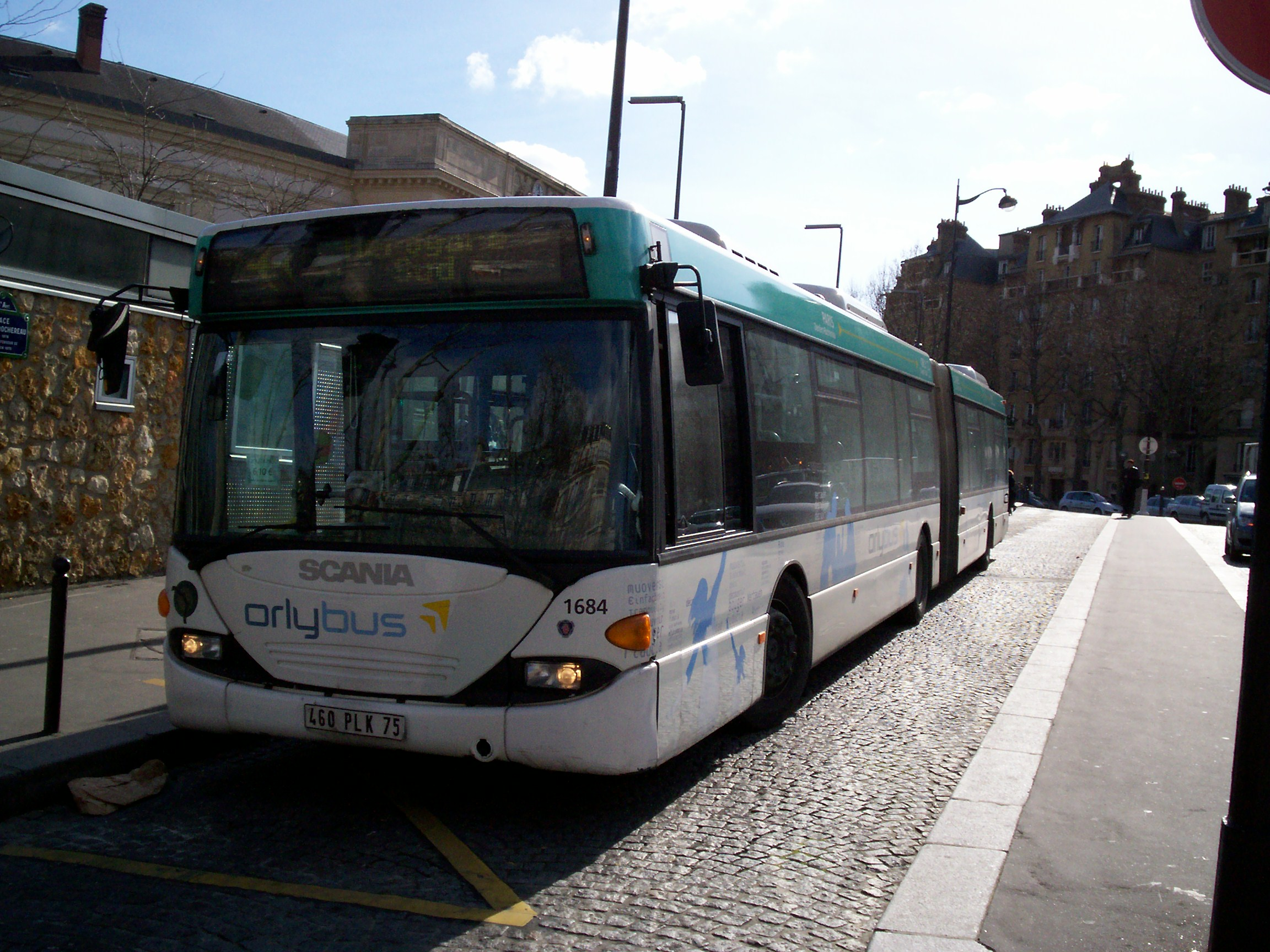 Scania CN94UA OmniCity bus (#1684) in Paris, France. Year built 2003.